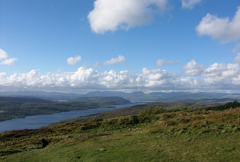 Lake Windermere, Cumbria, England